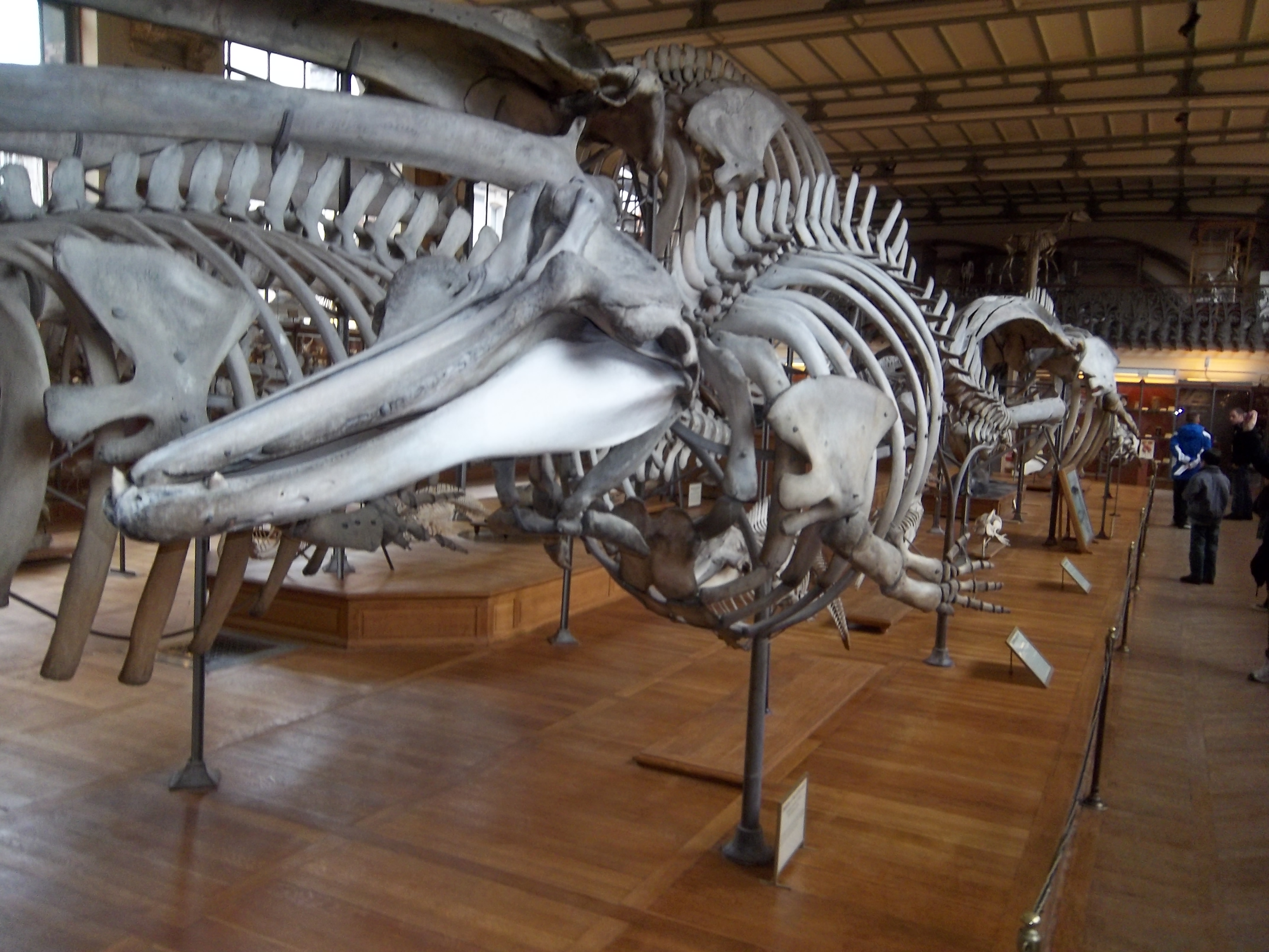 Giant beaked whale skeleton in the MNHN (Paris)